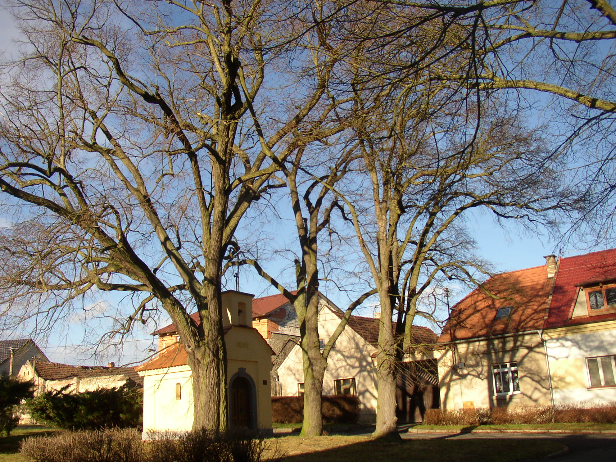 Rozdělovské lípy, a protected group of three Small-leaved Limes (Tilia cordata) in Kladno-Rozdělov, Kladno District, Czech Republic.